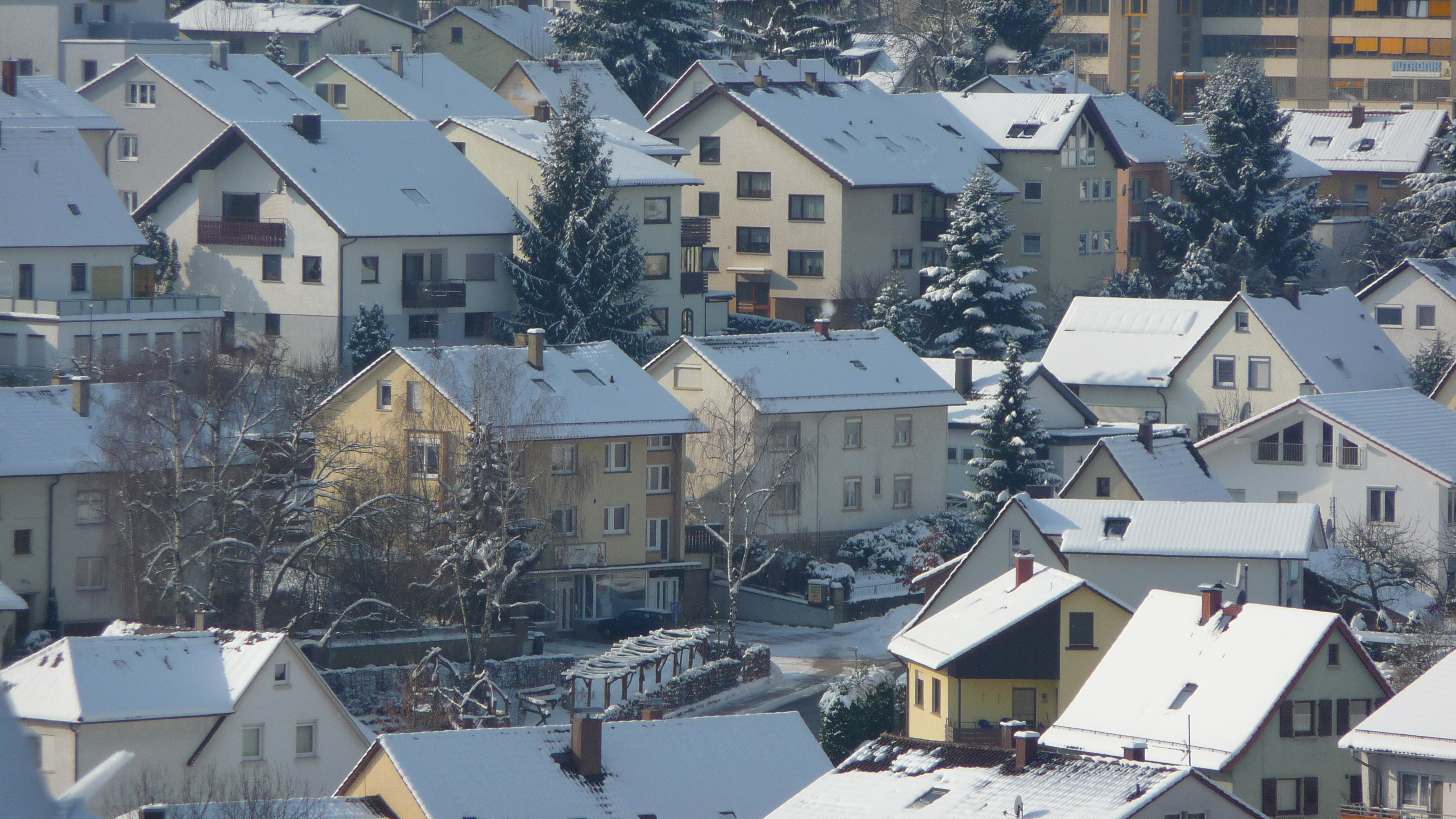 Ispringen in winter (February 2010)